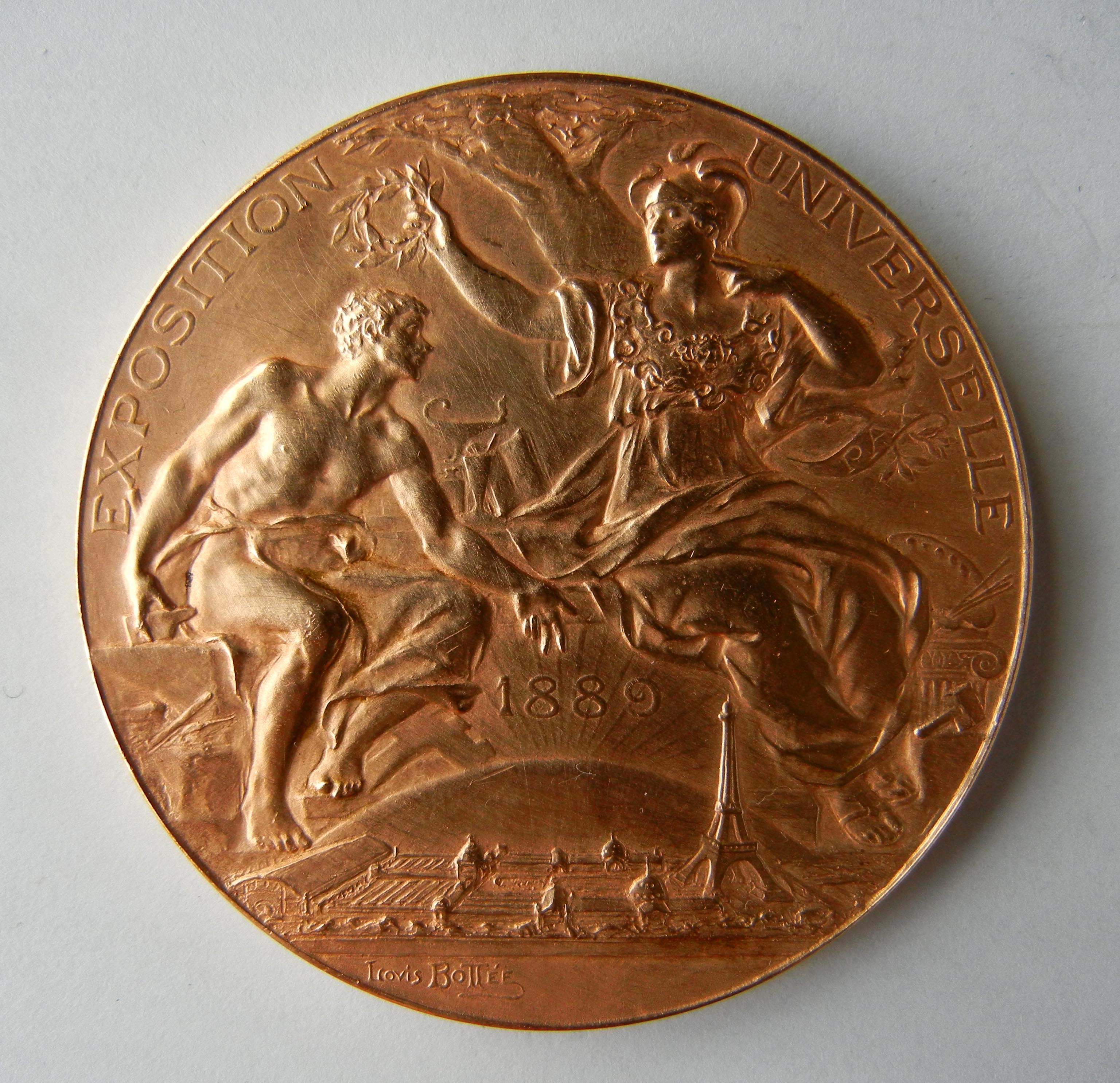 medal French Republic. Paris Exposition 1889. Awarded TISSANDIER Gaston (1843 - 1899) Scientific and French balloonist. Father Paul Tissandier (1881 - 1945), French aviation pioneer. Brother of Albert Charles Tissandier (1839 - 1906), architect, a balloonist and a French traveler. Engraver: Louis-Alexandre Bottée (1852-1940) bronze Diameter 63 mm, weight 106 grams